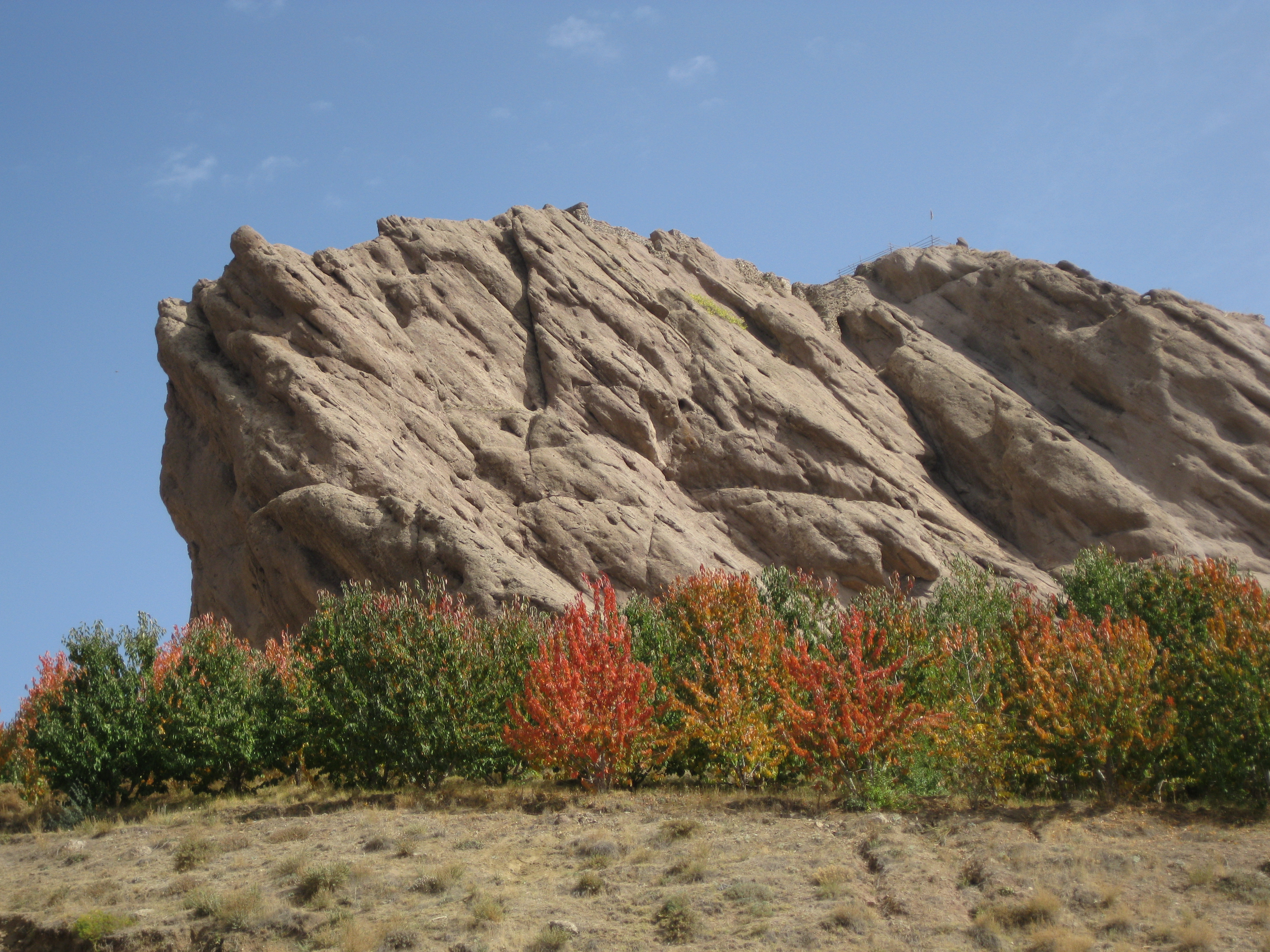 Alamut, Iran.